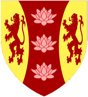 The escutcheon of the Viscounts Simon